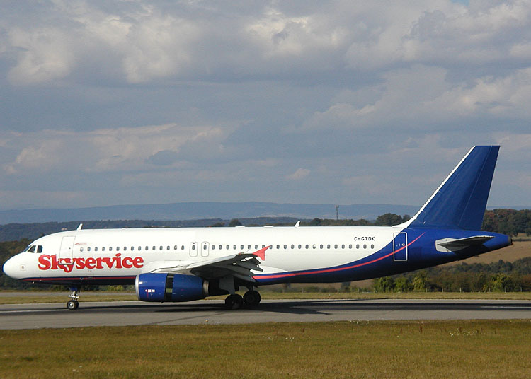 Skyservice Airbus A320-200 (C-GTDK, Canadian registered) on the landing roll at Bristol Airport (England). Photographed by Adrian Pingstone in September 2003 and released to the public domain.